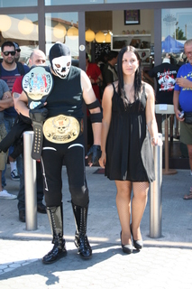 TCW wrestler Death Mask